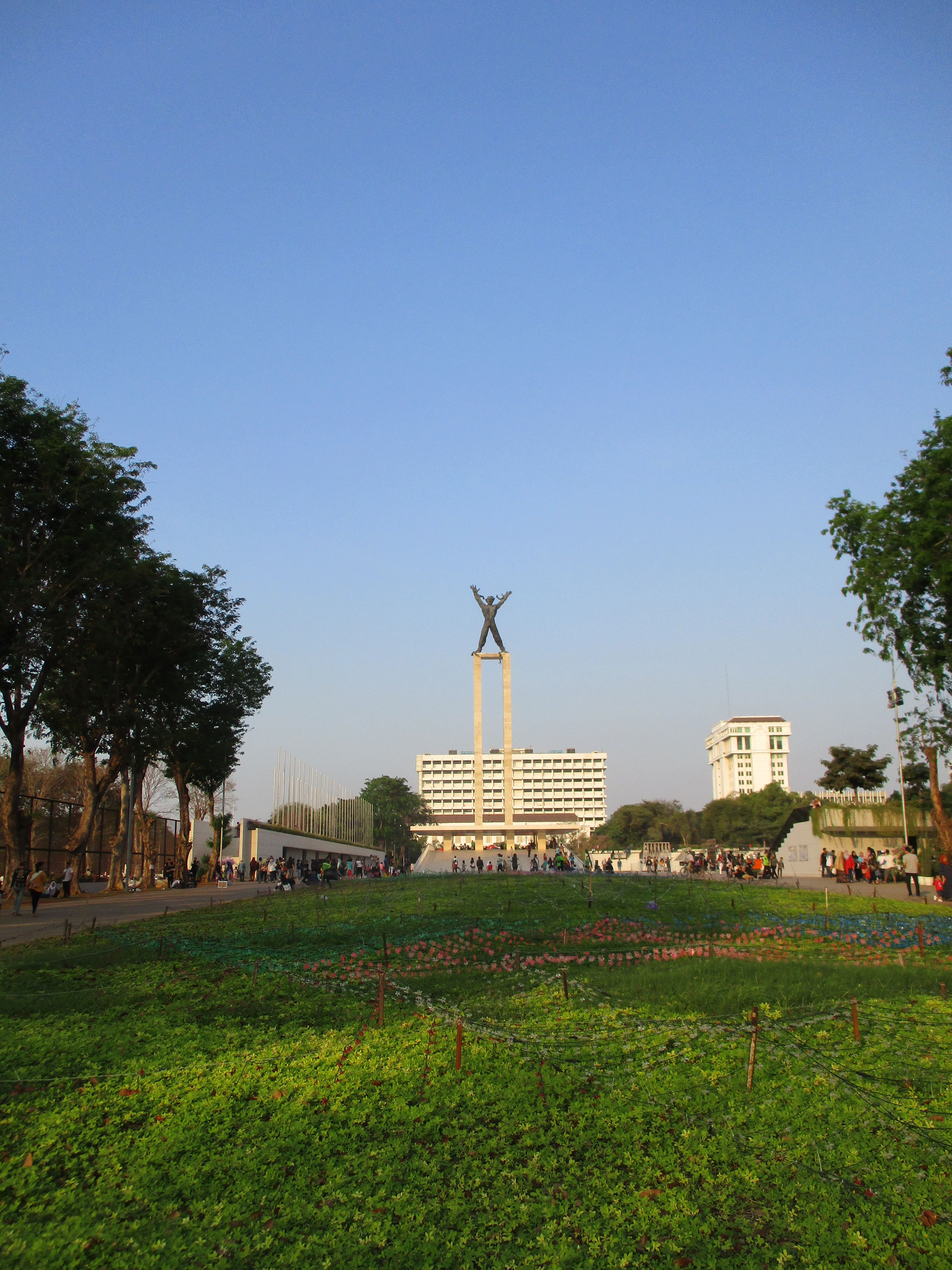 West Irian Liberation Monument at Lapangan Banteng